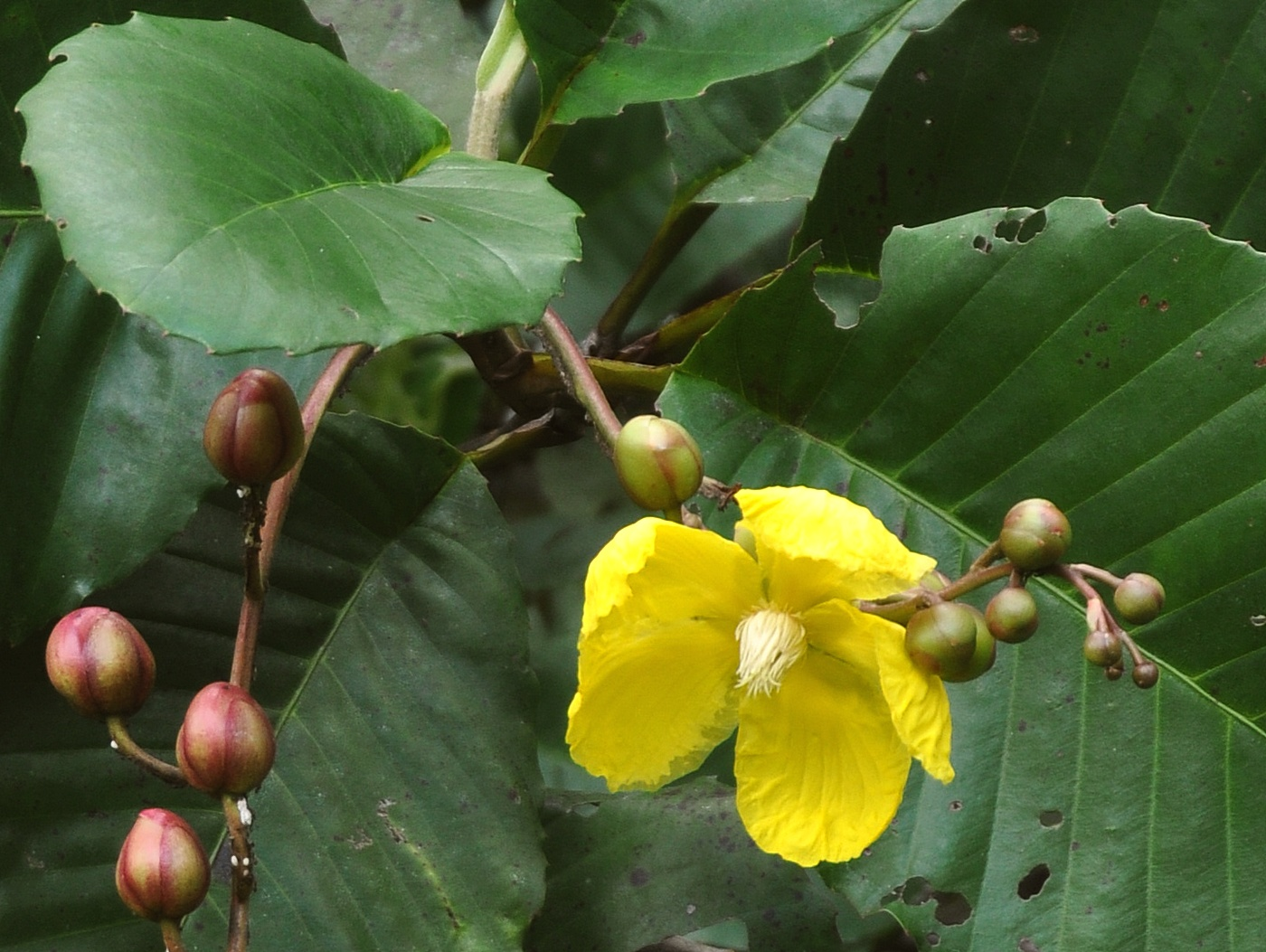 Dillenia suffruticosa flower. From Bangka Island, Indonesia.